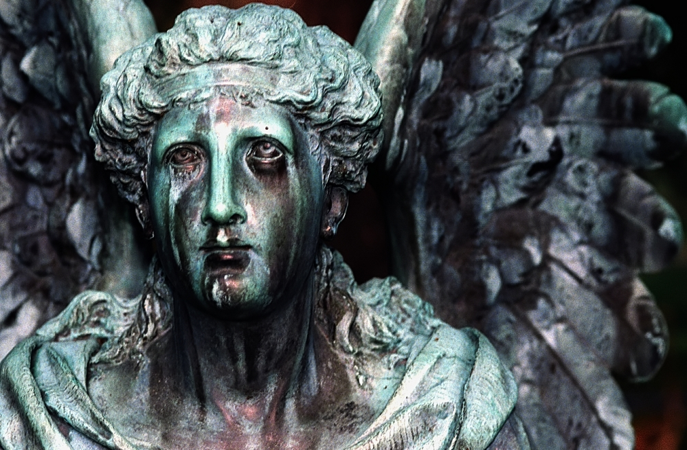 Cincinnati - Spring Grove Cemetery & Arboretum "Angel"